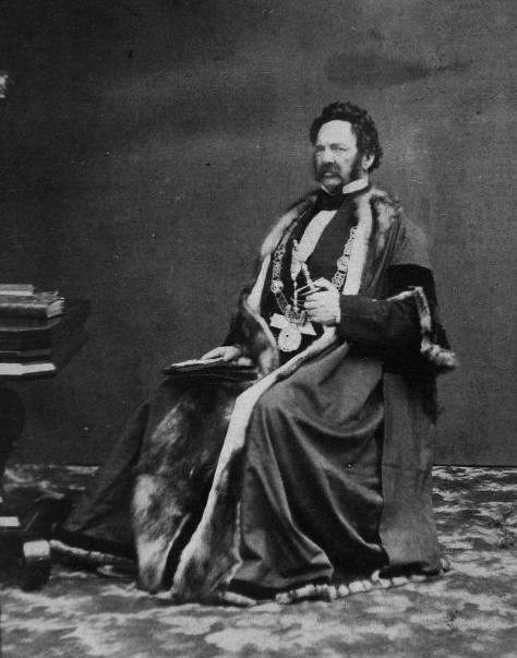 Photograph of Mayor Charles S. Rodier, Montreal, QC, 1861.